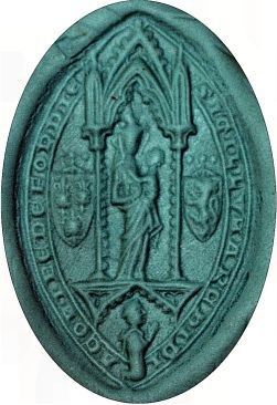 Wax seal (created post-2003) from from 12/13th c. brass matrix of the Archdeacon of Bedford, found in South Lincolnshire in 2003 by a metal detectorist. The arms at dexter are Cantilupe (modern): Gules, three leopard's faces jessant-de-lys or, as used by Saint Thomas de Cantilupe (d.1282), Bishop of Hereford, and later adopted as the arms of the See of Hereford. The reason for the use of the Cantilupe arms on the seal is unclear, the surviving (but incomplete) list of Archdeacons of Bedford does not include a member of the Cantilupe family. The office of Archdeacon of Bedford had no connection with the See of Hereford and is known to have been under the control of the See of Lincoln, hence a possible reason for the location the object was found in. The Cantilupe family were feudal barons of Eaton (Bray) in Bedfordshire and were seated (amongst many other places) at Eaton Castle, near Dunstable, not too far from the town of Bedford. The style of the seal with the gothic architectural elements date it to the 13/14th. centuries. Measurements: 32 mm x 51 mm; weight 2.5 g. Latin inscription: SIGILLUM ARCHIDIACONI BEDEFORDI(A)E ("Seal of the Archdeacon of Bedford").